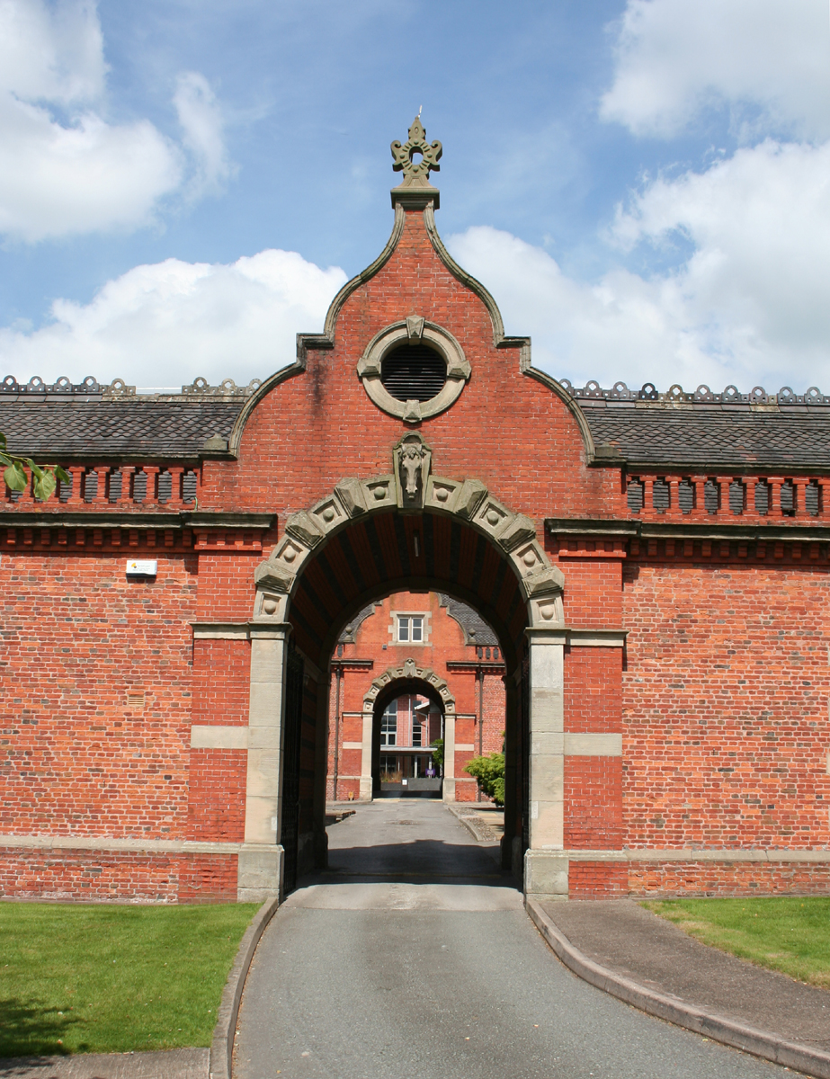 Carriage archway in the south face of the stables quadrangle, Crewe Hall, Cheshire